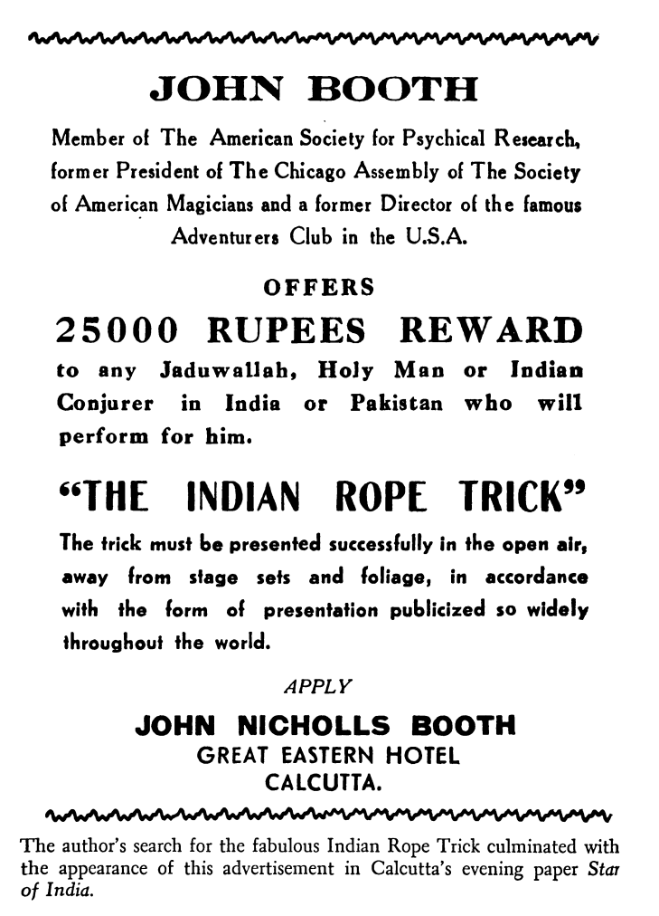 The magician John Booth's reward for performing the Indian rope trick.